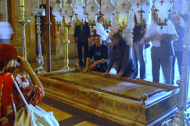 13th Station of the Cross inside the Church of the Holy Sepulchre.